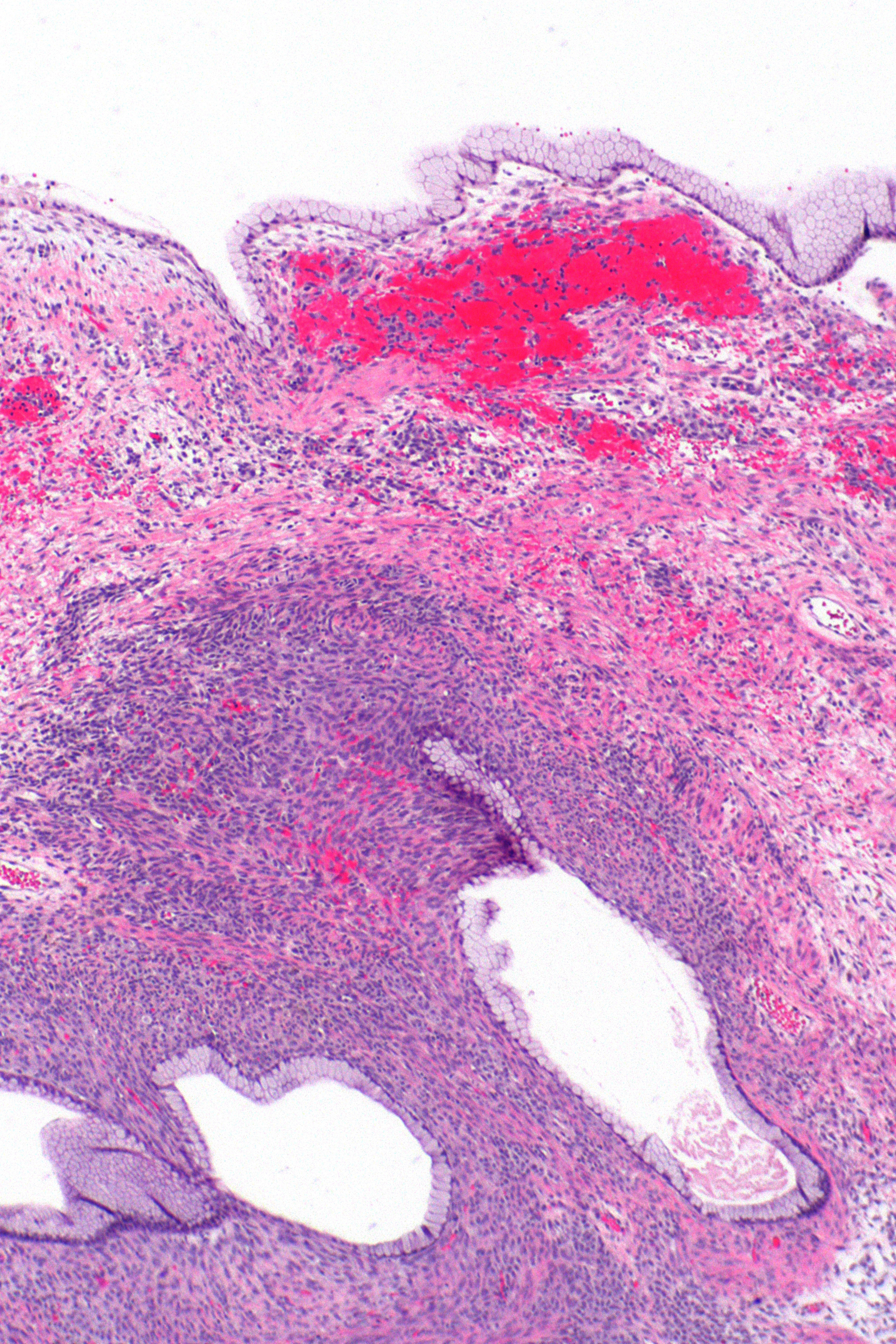 Micrograph of a mucinous cystadenoma of the ovary or ovarian mucinous cystadenoma. H&E stain. Related images OMC - low mag. OMC - low mag. OMC - intermed. mag. OMC - high mag. OMC - intermed. mag. OMC - high mag. OMC - high mag. OMC - very high mag.